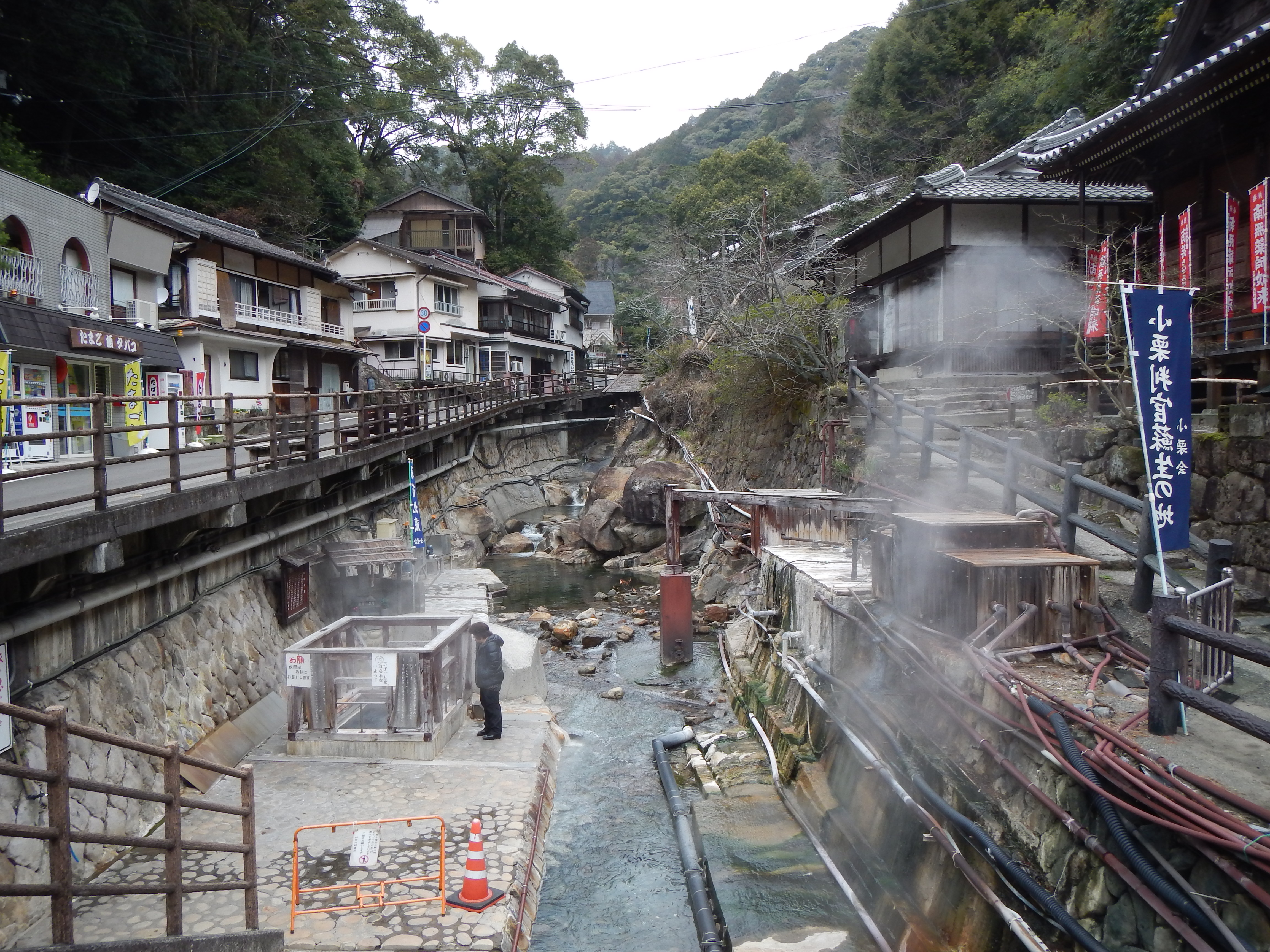 Kumano Kodo pilgrimage route Yunomine Onsen World heritage 熊野古道 湯の峰温泉